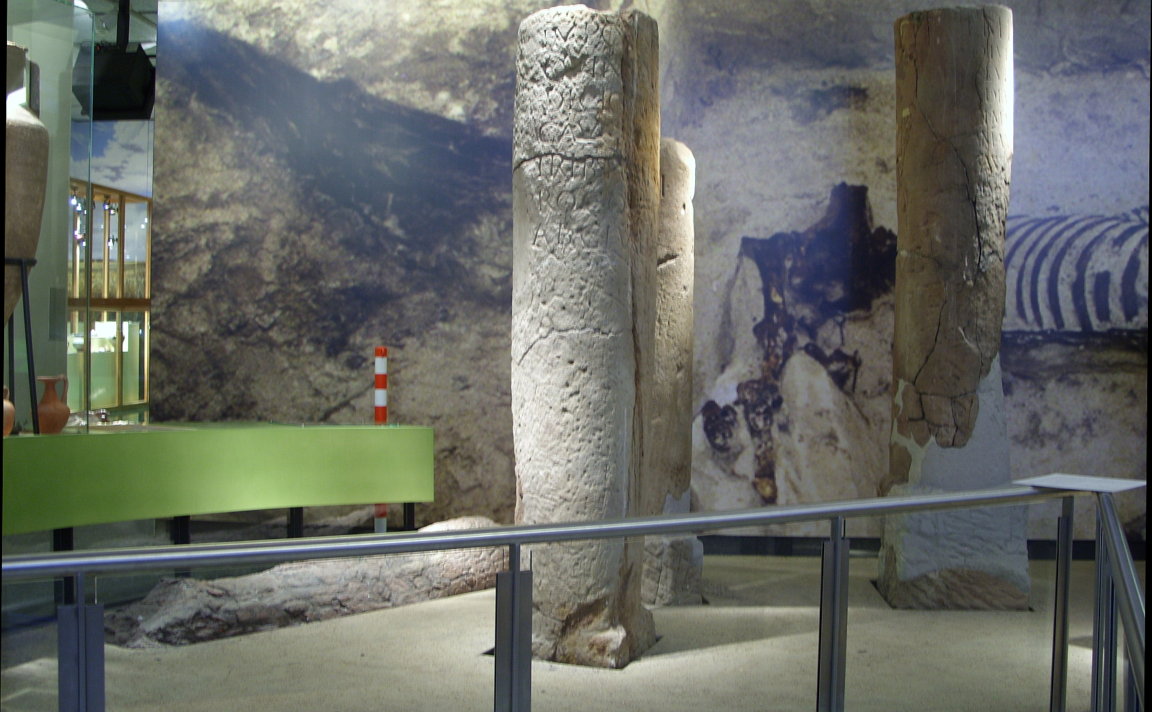 Four Roman Milestones found in Wateringse Veld, The Hague, The Netherlands 1997, presently on display in the Museon Museum The Hague, The Netherlands.